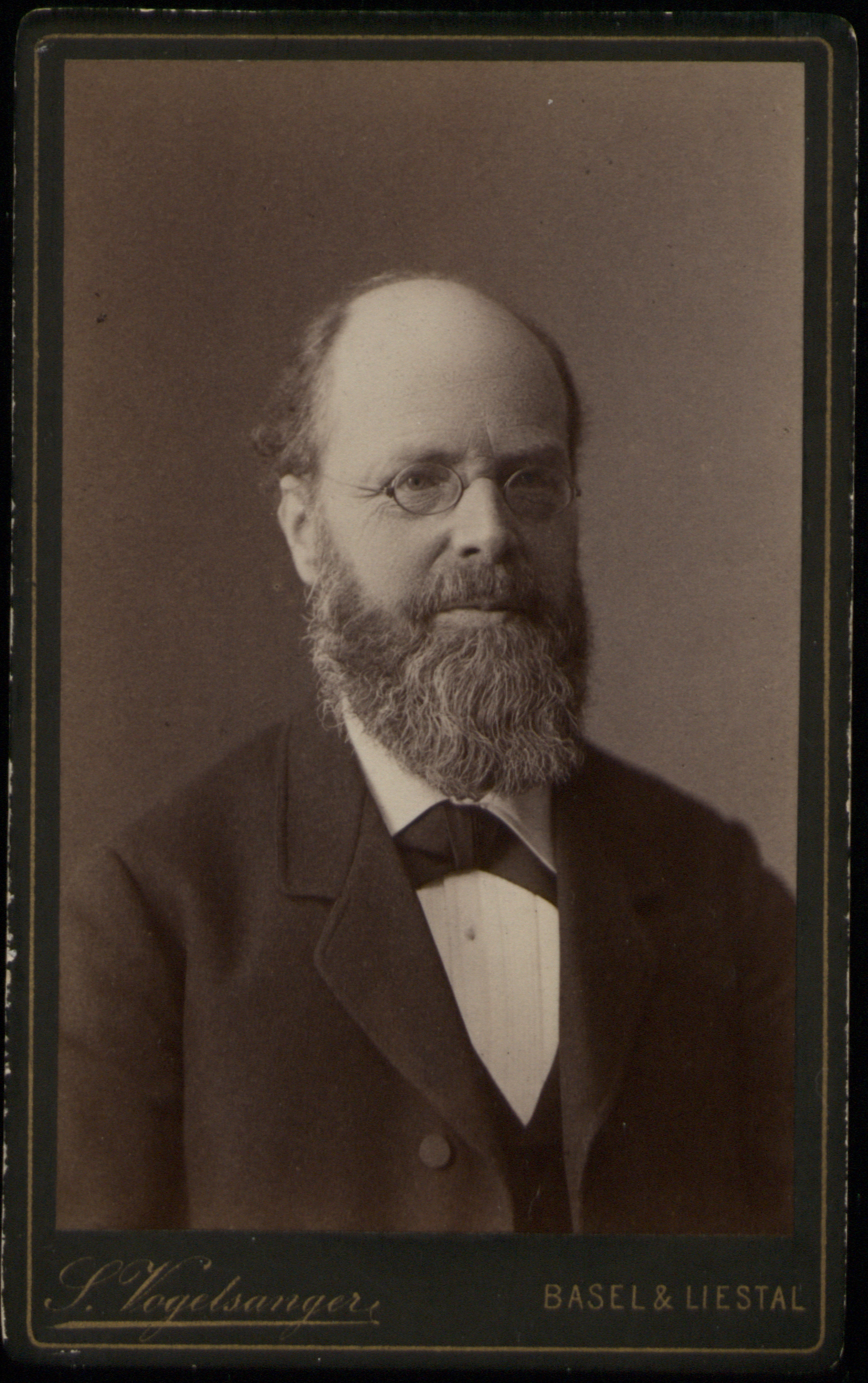 Portrait of Theophil Burckhardt-Biedermann (1840-1914), photo